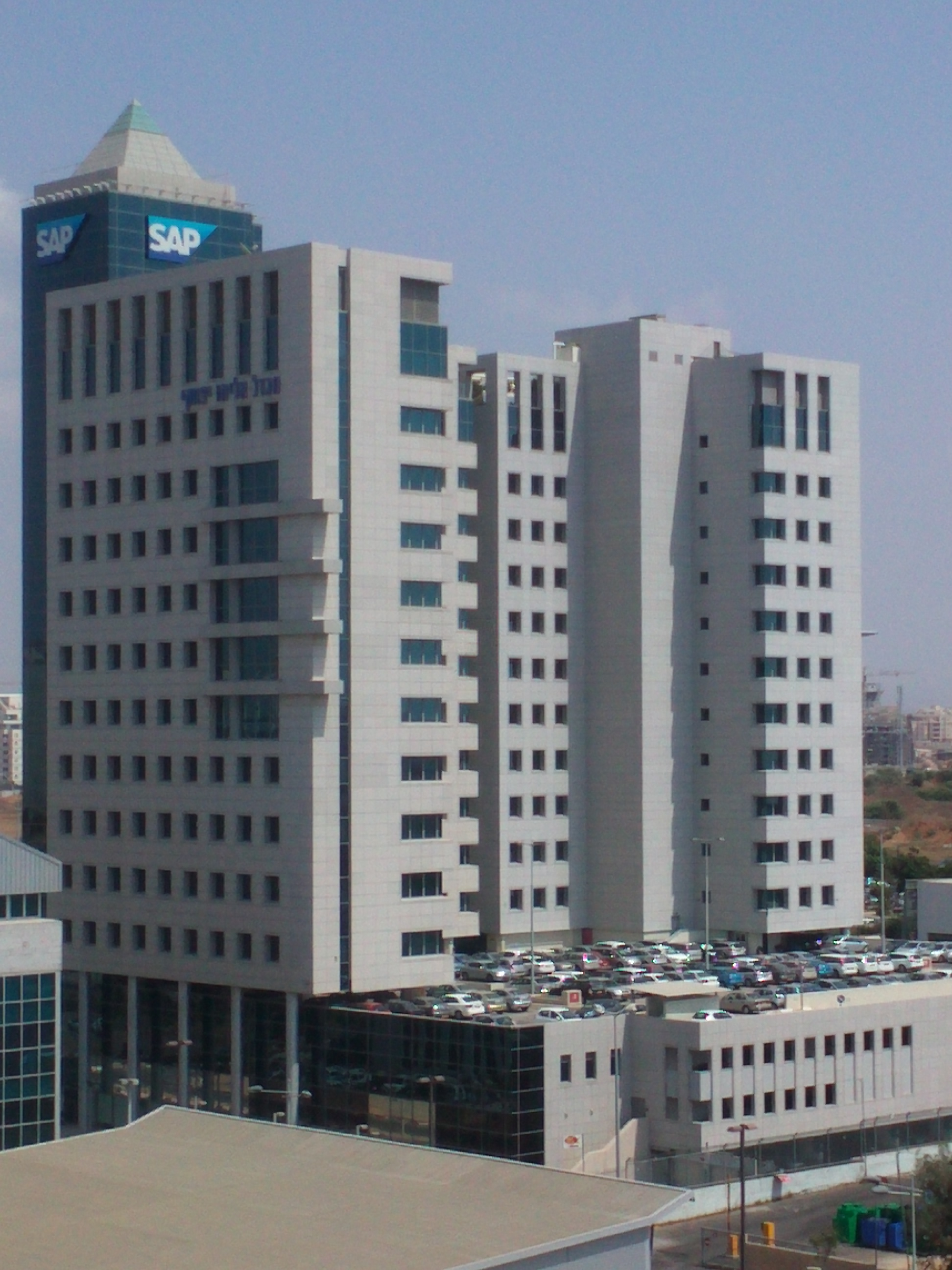 Old SAP building in Raanana